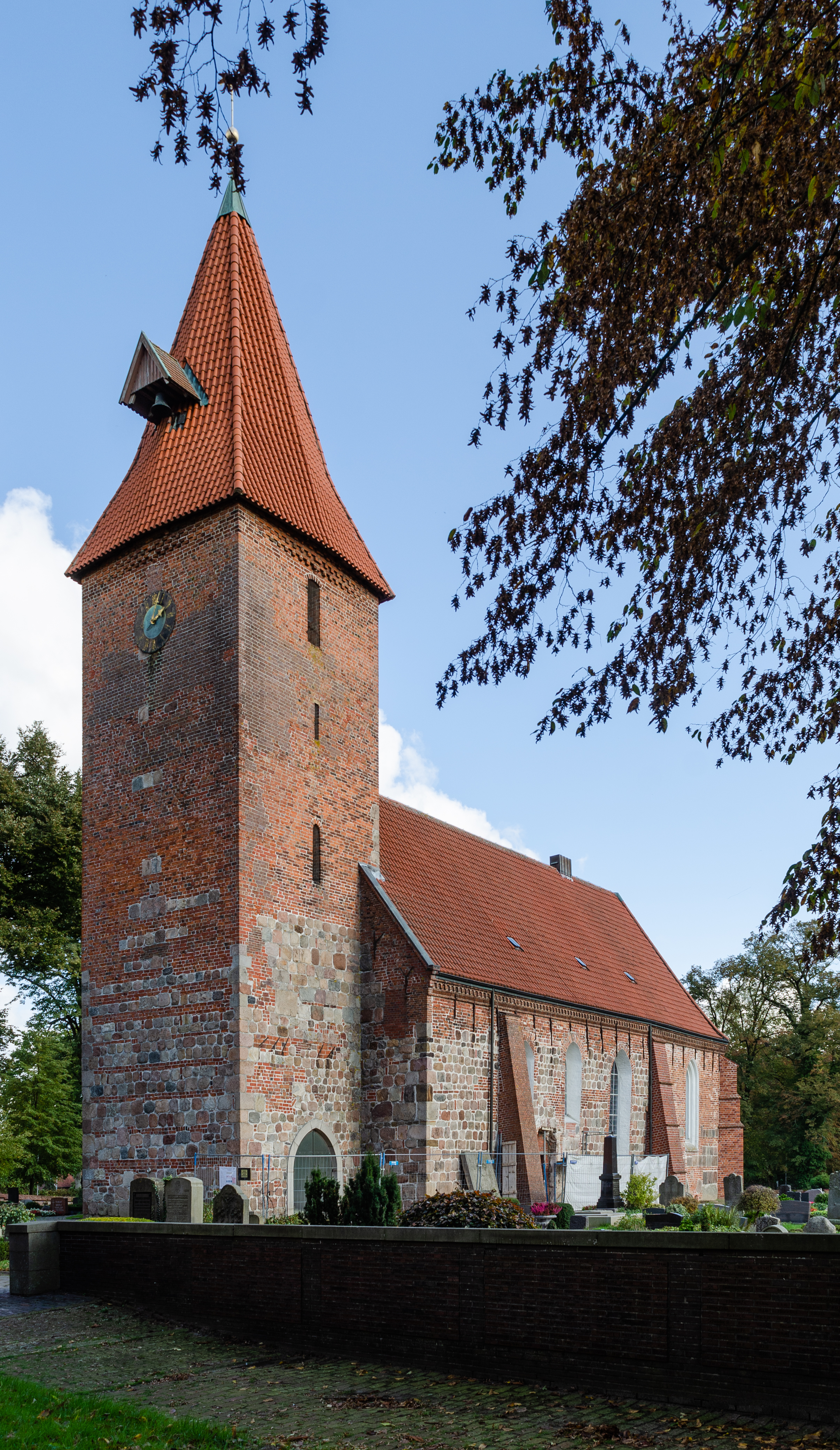 Rastede (Lower Saxony, Germany) – Lutheran Saint Ulrich's Church – view from the southwest